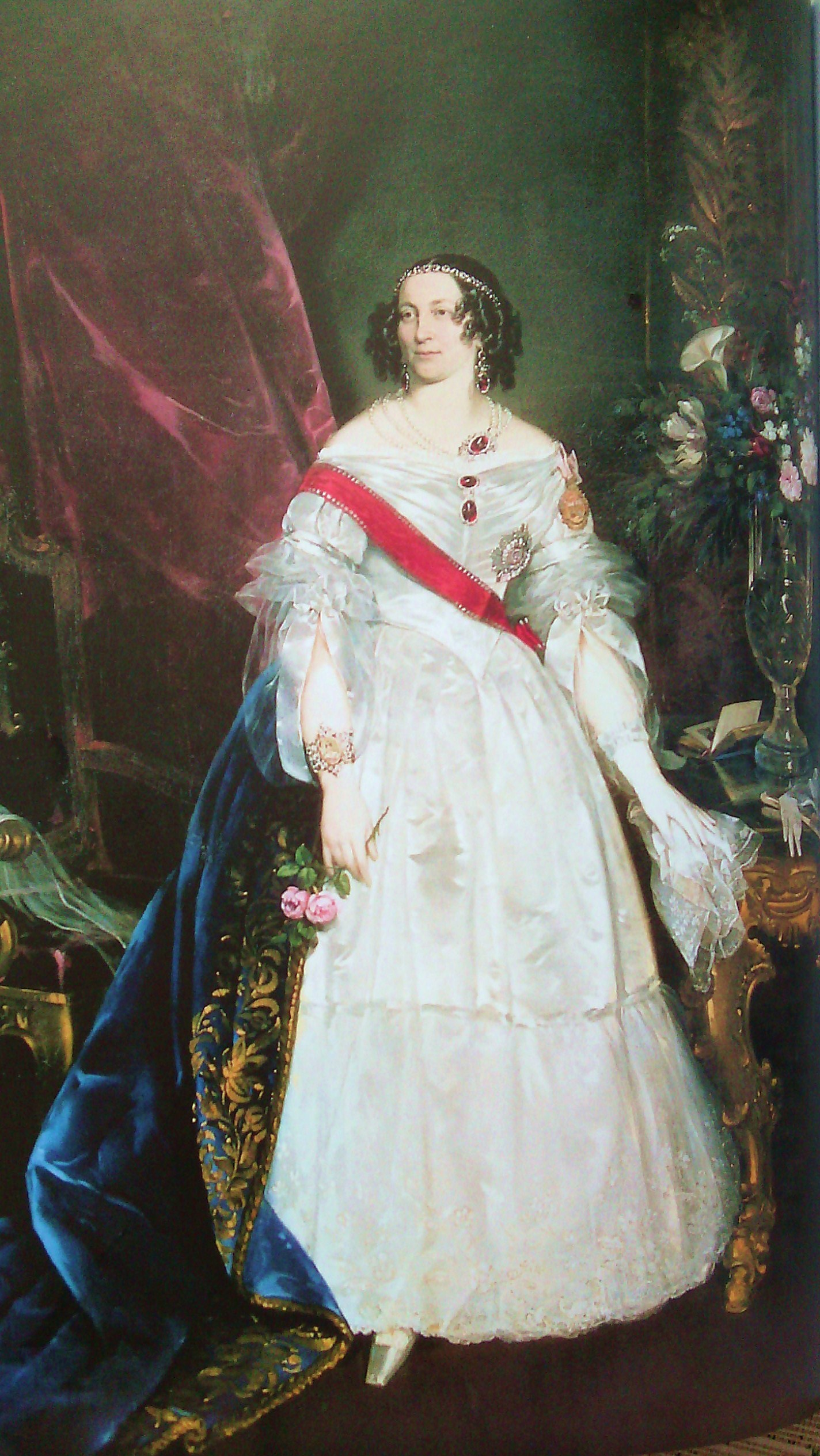 Marie von Württemberg